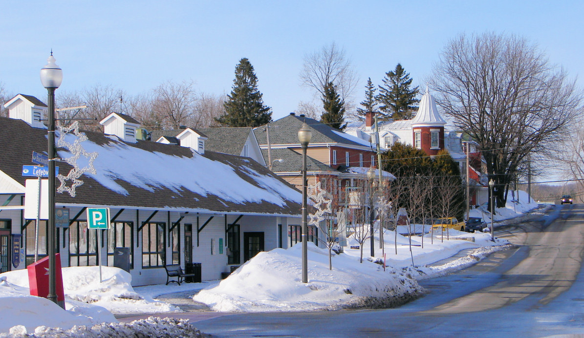 Main street in Buckingham, Gatineau, Quebec, Canada